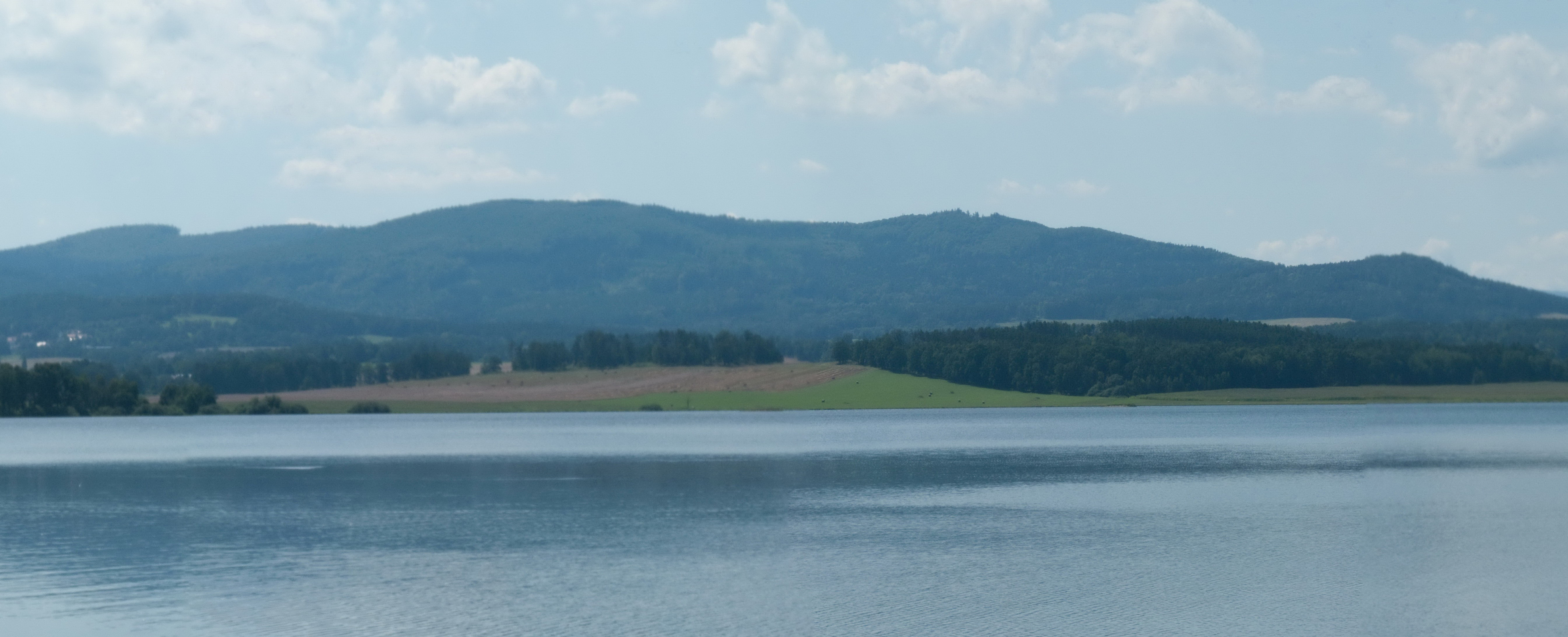 anorama photo of Dehtář pond from the village of Dehtáře, České Budějovice district, Czech Republic. View of the hill Vysoká Běta (Hohe Liesel in German).